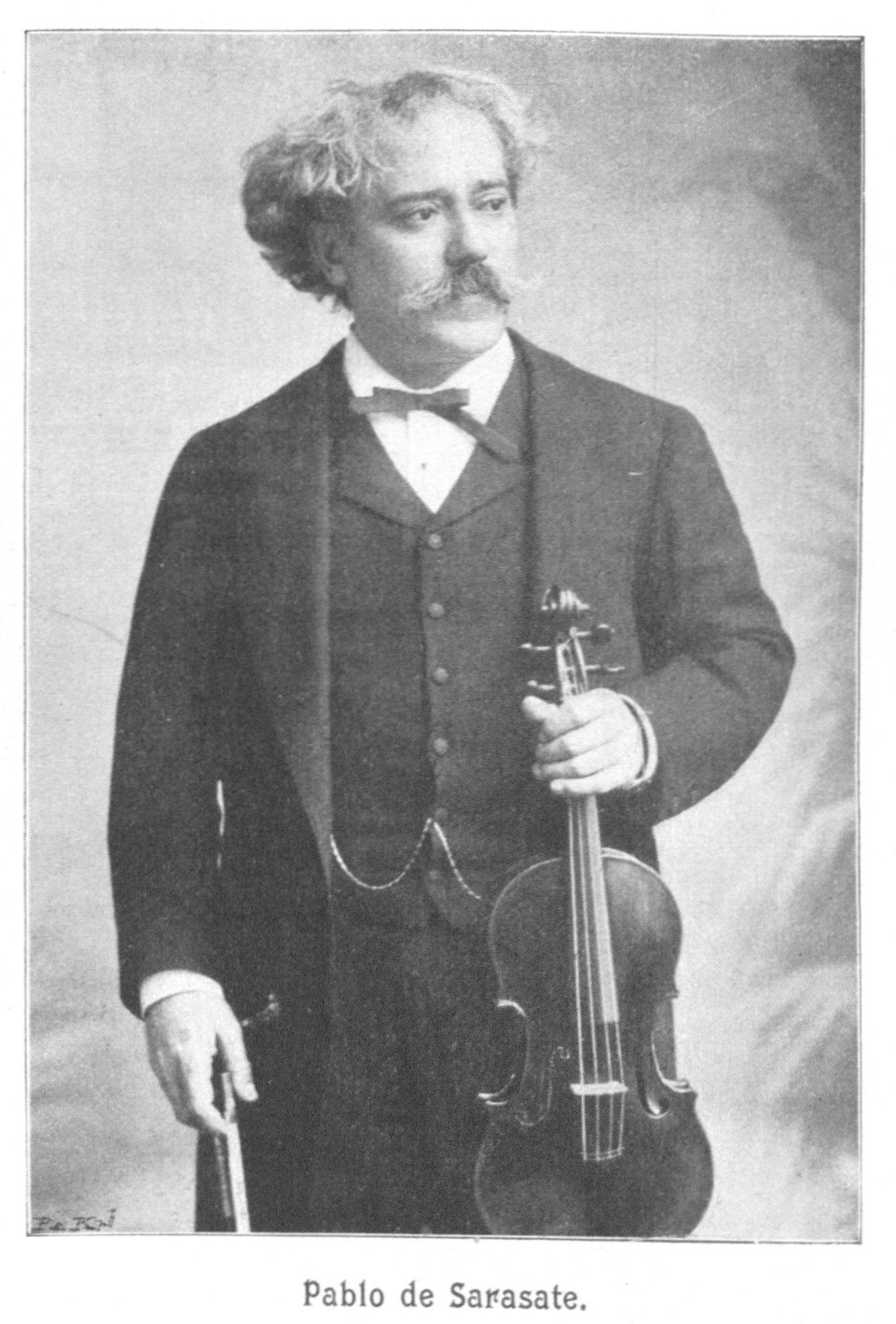 Pablo de Sarasate